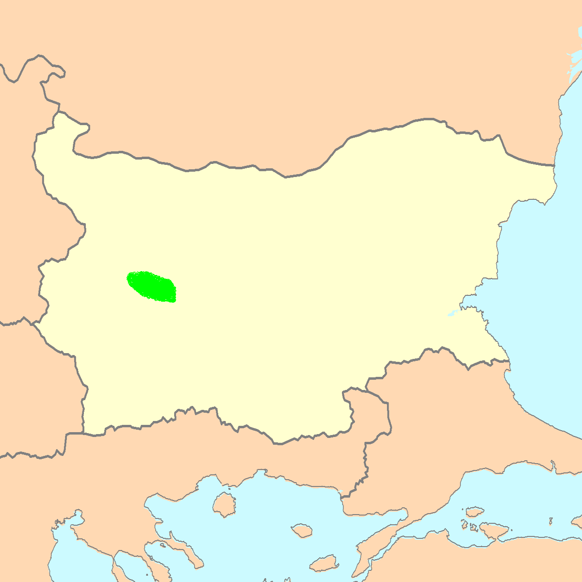 Elin Pelin Sheep area of distribution